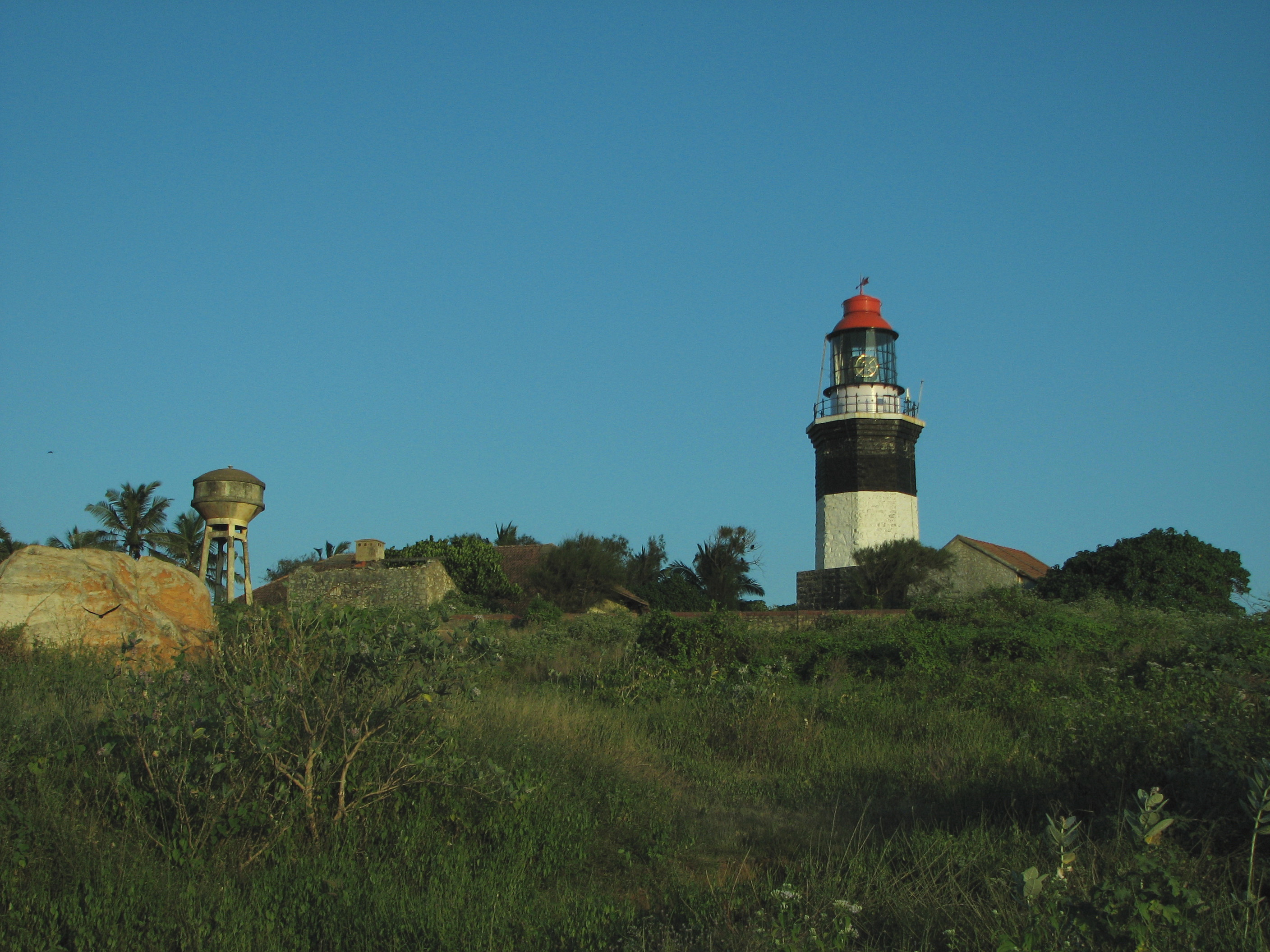 self-made image ; Author's Name : Infocaster